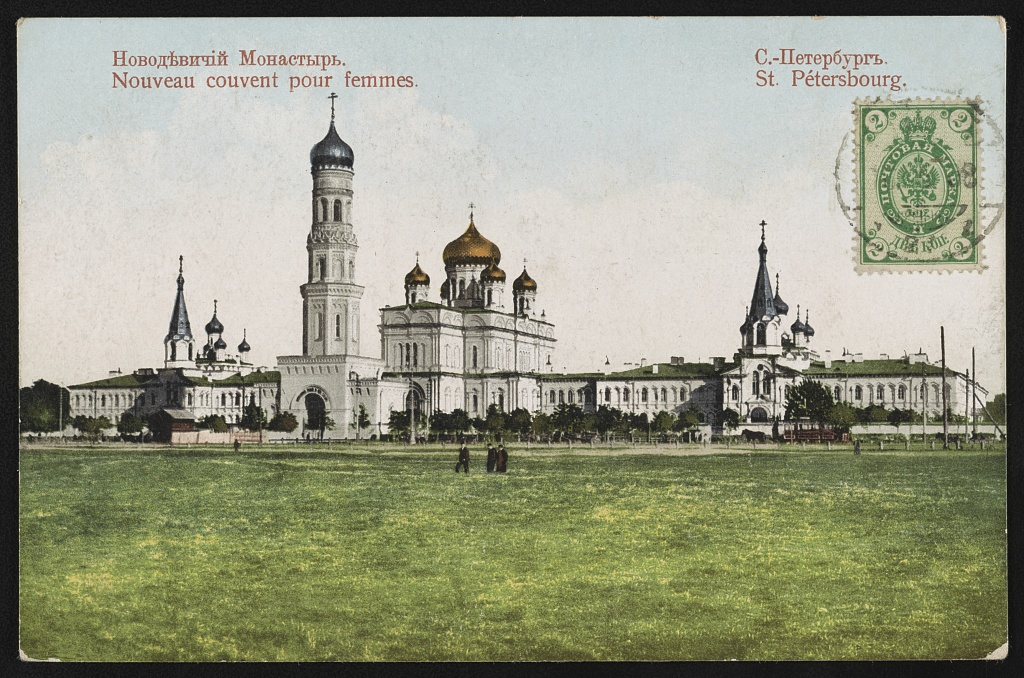 Title: Novodi︠e︡vichiĭ monastyrʹ, S.-Peterburgʹ Nouveau couvent pour femmes, St. Pétersbourg. Abstract/medium: 1 photomechanical print (postcard) : photolithograph, color ; 9.1 x 13.8 cm.